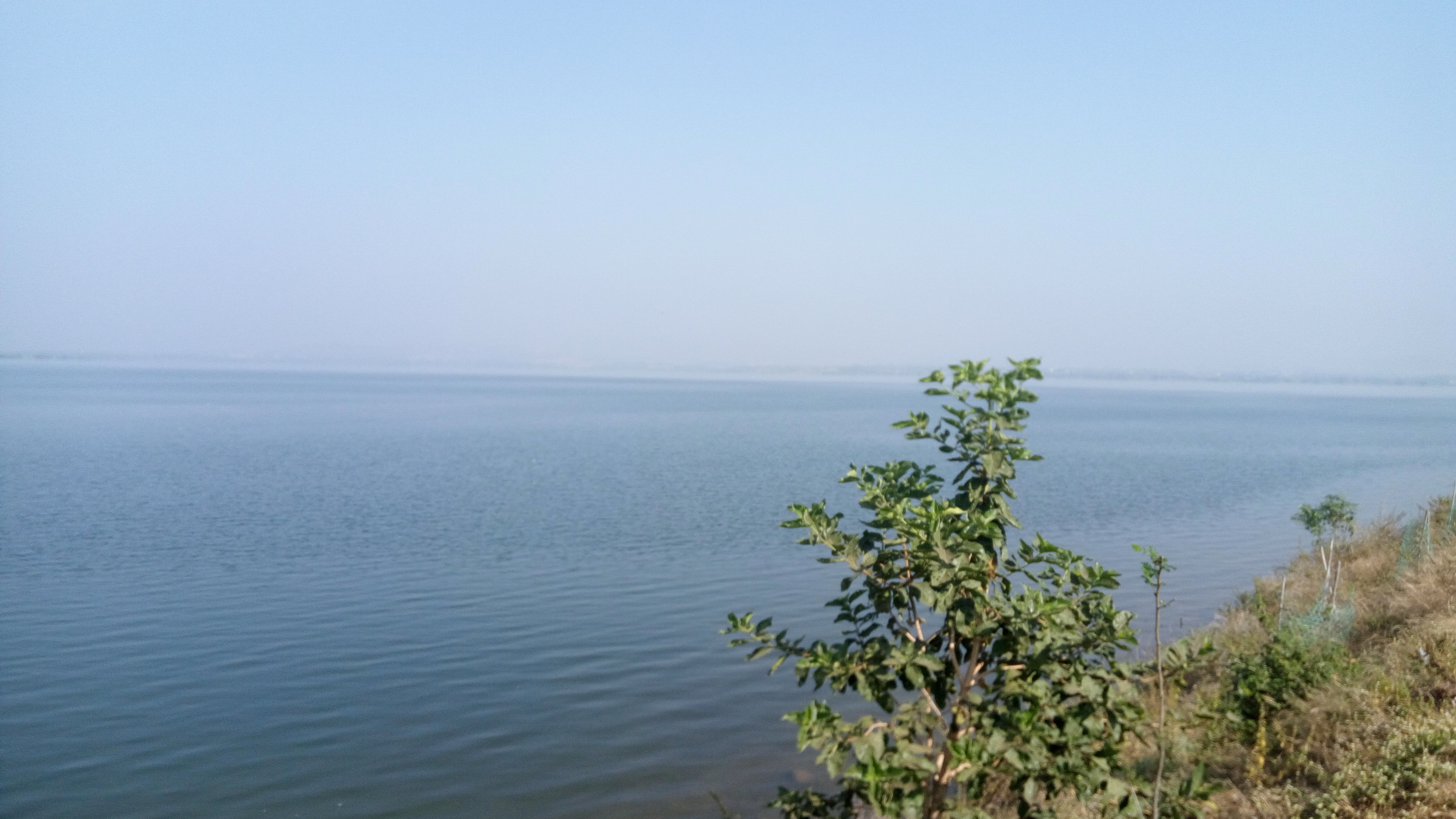 Veer Dam 1